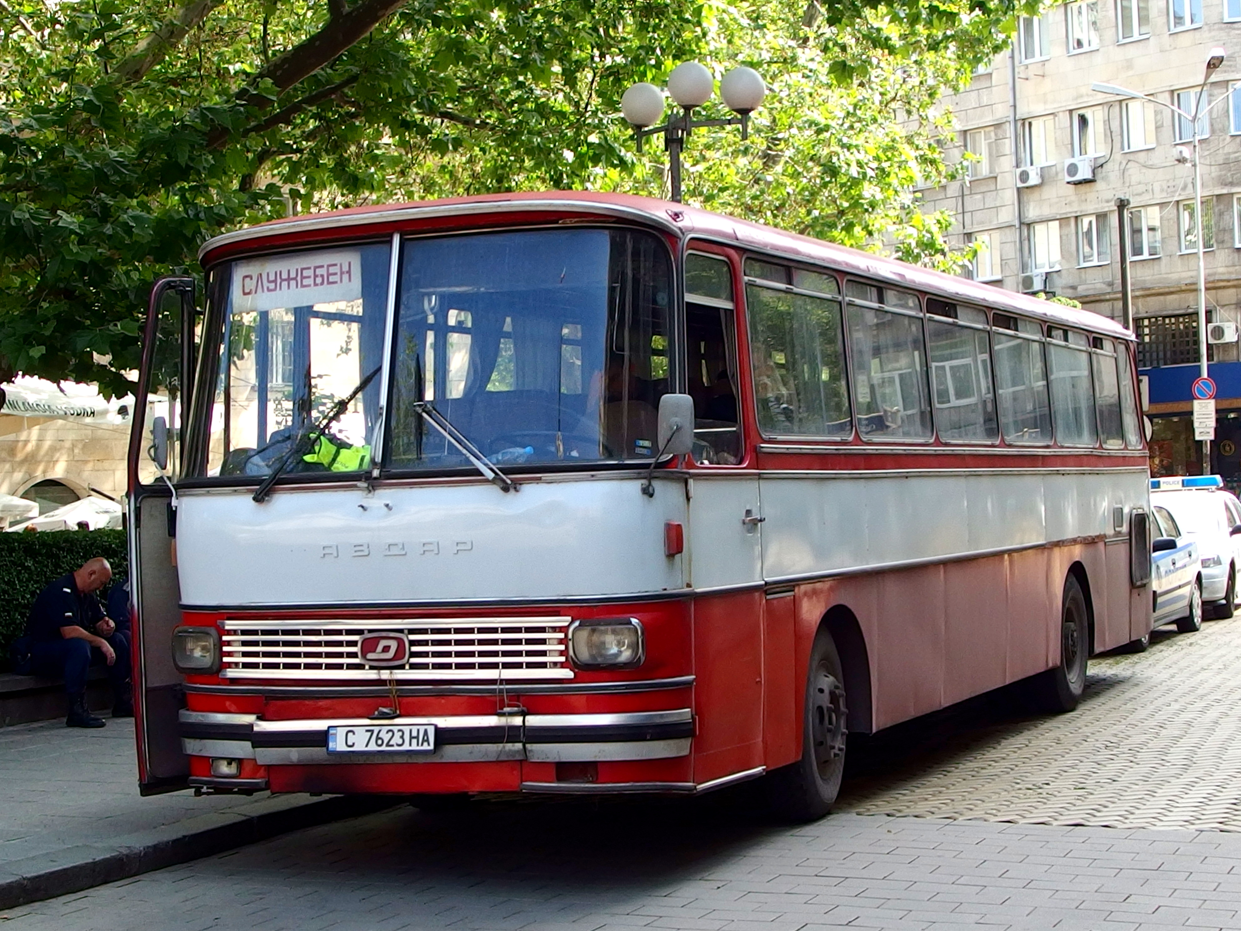 2014-06-14 in Sofia.